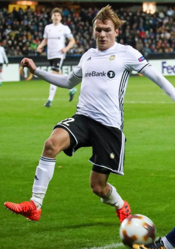 03.11.2017. Норвегия, Тронхейм, стадион «Леркендал». Лига Европы УЕФА 2017/18, 4 тур, «Русенборг» — «Зенит».